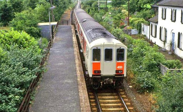 Ballycarry station (1986). See 1014074. By 1986 matters had improved considerably. The track had been re-laid, the old building on the up platform replaced by a reasonable shelter and the platform had been shortened, raised and re-surfaced. The rolling stock, however, was a mixture of old Mark 1 underframes, second-hand engines and new bodies. Still in service 1001618. Continue to 1419506.